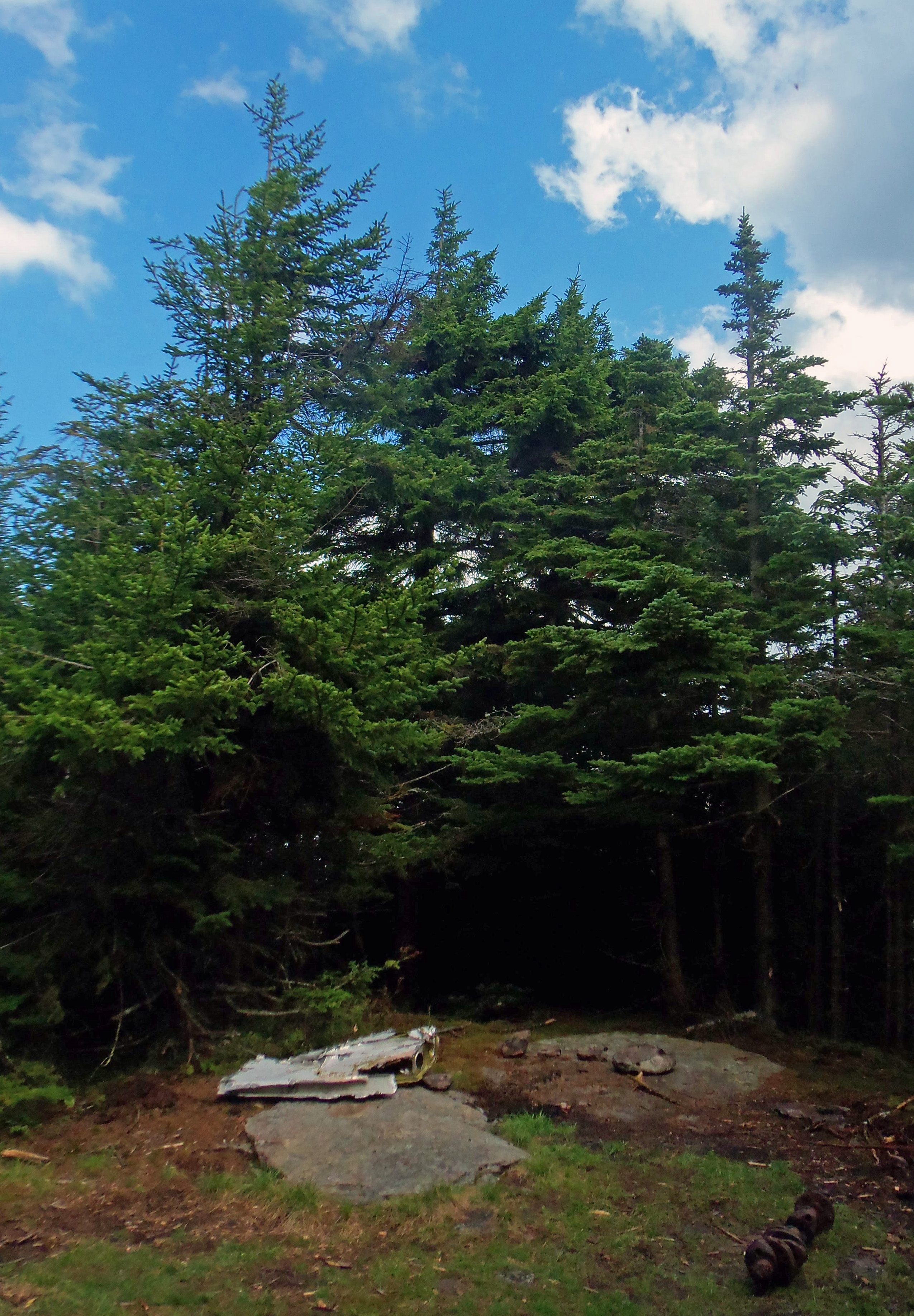 Summit of Kaaterskill High Peak, in the Catskill Mountains of New York.